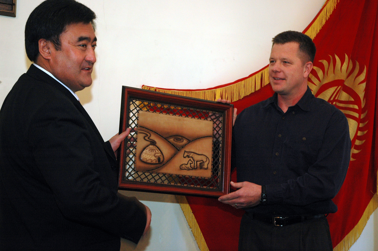 Bishkek mayor Arstanbek Nogoev (left) presents a gift for Colorado Springs mayor Lionel Rivera to an airman at Manas Air Base